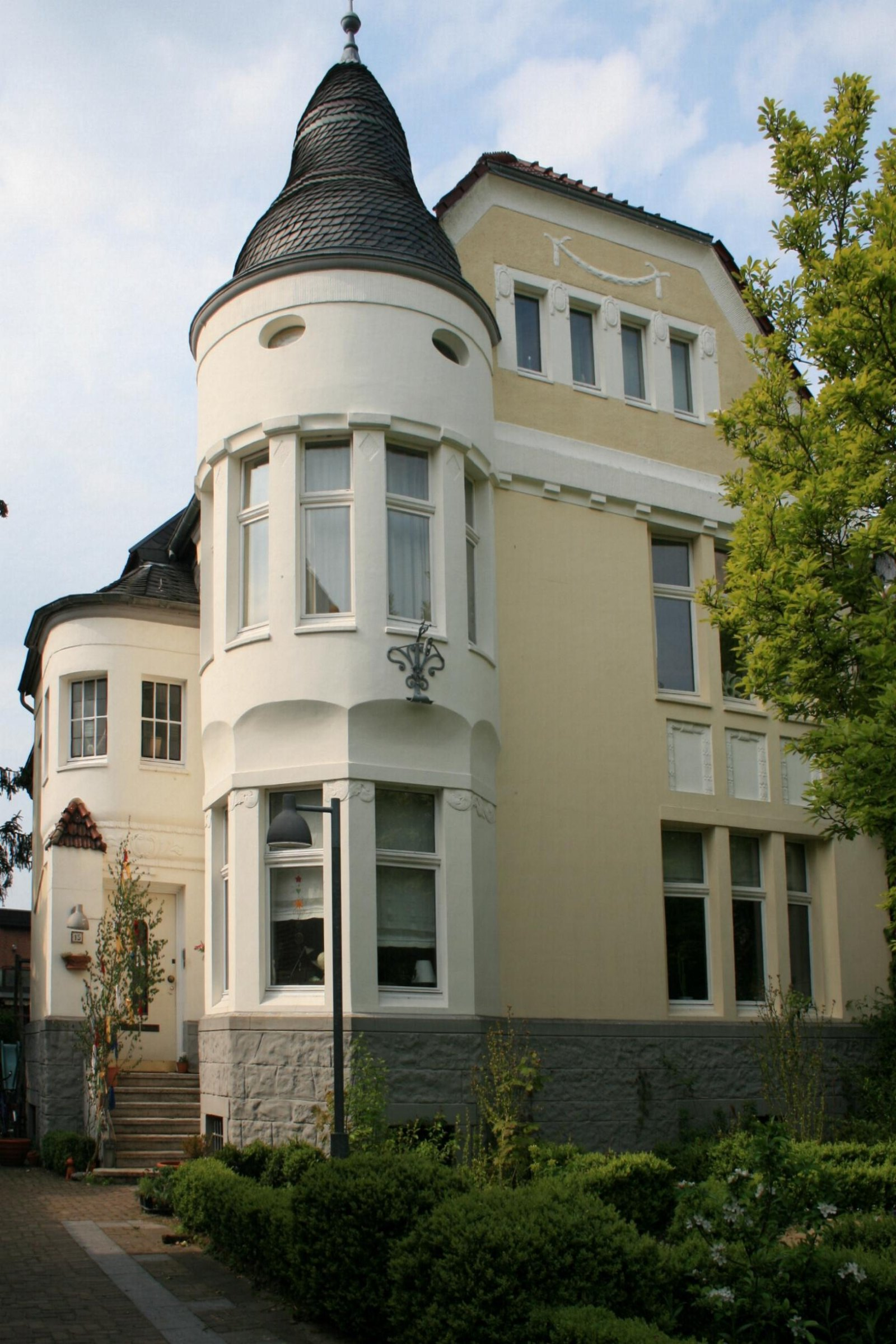 Cultural heritage monument No. B 008 in Mönchengladbach